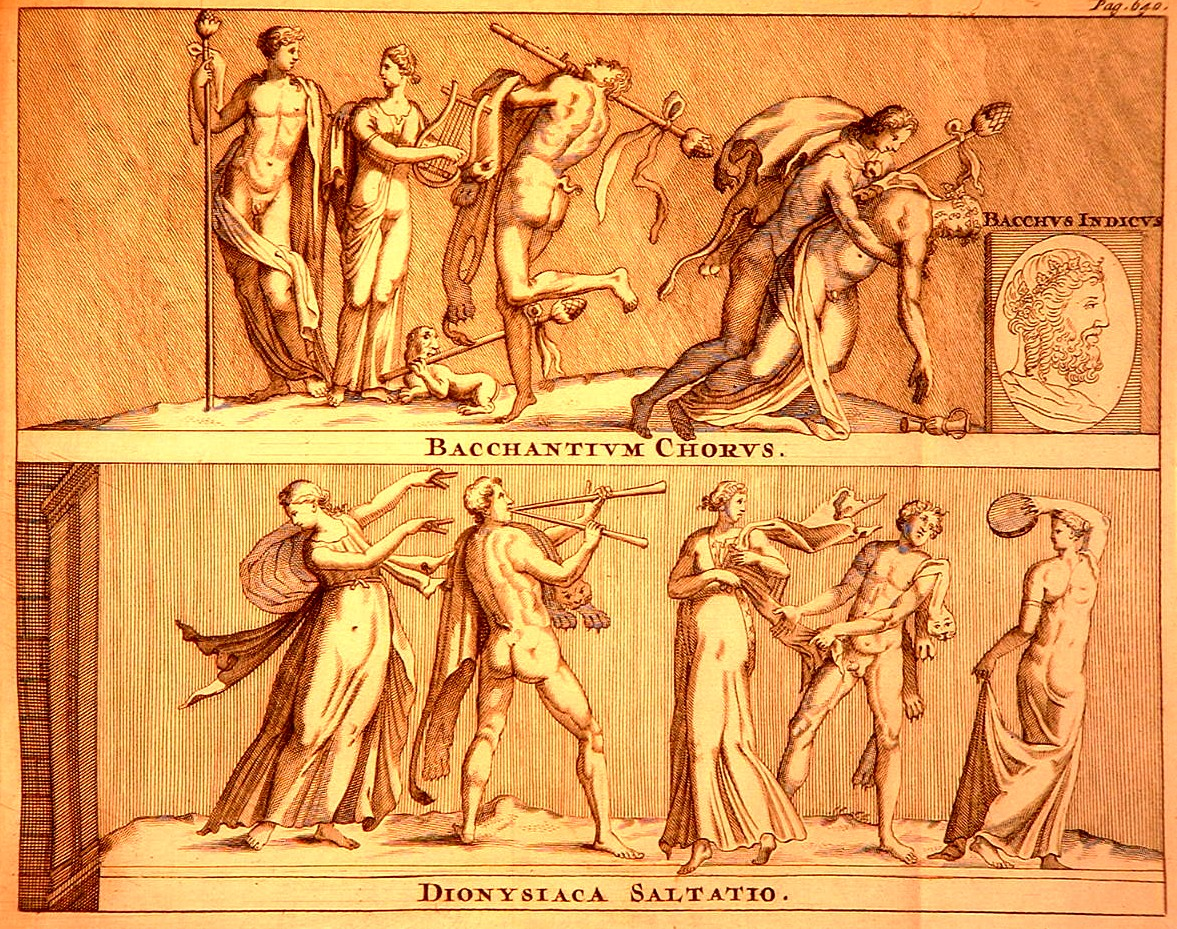 Bacchanal and Dionysiac dances.